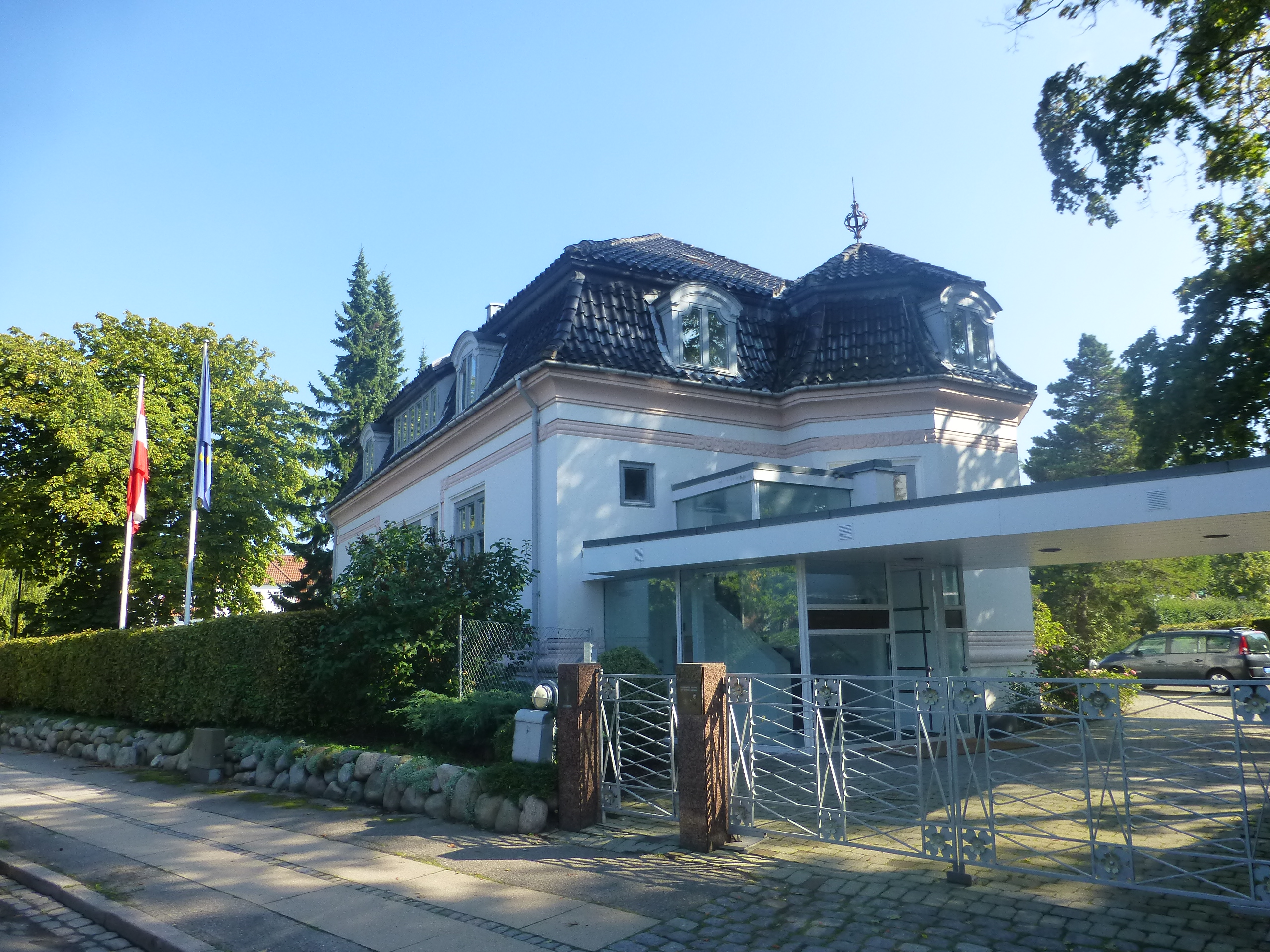 The embassy of Austria at Sølundsvej in Østerbro in Copenhagen.